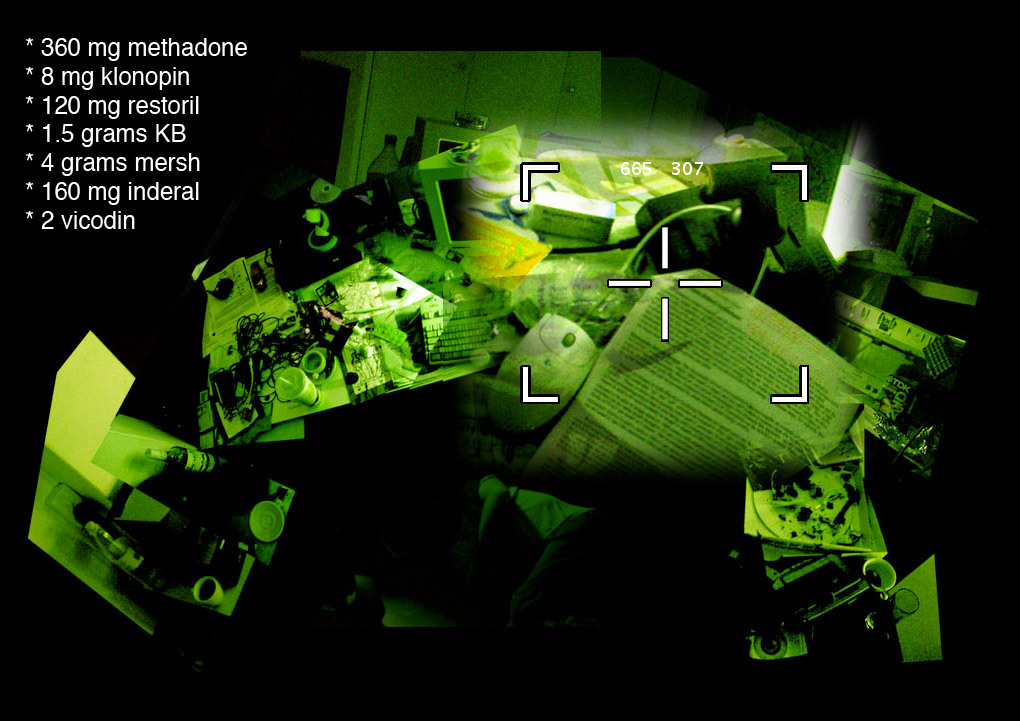 Imagery from the multimedia performance and video installation LOL (laughing out loud) by N3krozoft Ltd. Interface design of the interactive CD-ROM published with the catalog "Mapping New Territories", Christoph Merian Verlag, 2005, ISBN 3-85616-238-0.